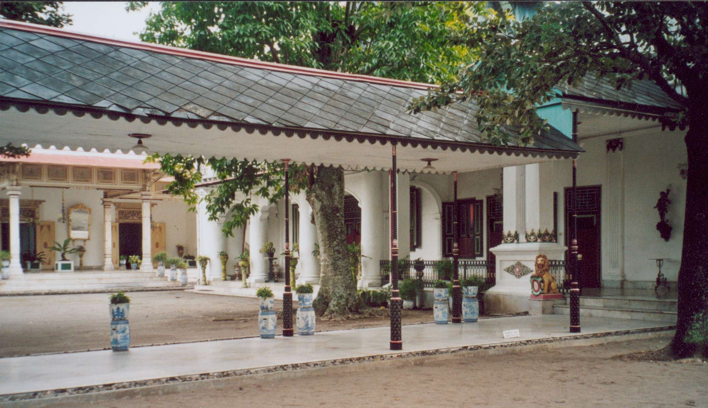 Inner court at the kraton of Yogyakarta, Indonesia